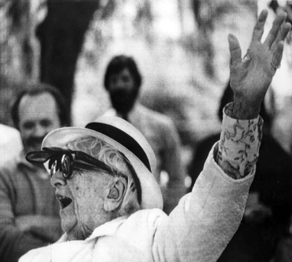 Local call number: PR07037 Title: Marjory Stoneman Douglas Date: April 4, 1985 General note: Photographed at the naming of the Department of Natural Resources administration building in her honor. Douglas, an environmental activist and popular author, was inducted into the Women's Hall of Fame in 1986 and awarded the Presidential Medal of Honor by President Clinton in 1993 for her conservation efforts. Physical descrip: 1 photograph - b&w - 8 x 10 in. Series Title: Repository: 500 S. Bronough St., Tallahassee, FL 32399-0250 USA. Contact: 850.245.6700. Persistent URL: Visit Florida Memory to learn more about the in the time of Marjory Stoneman Douglas. Visit Florida Memory to find resources for and to learn more about the